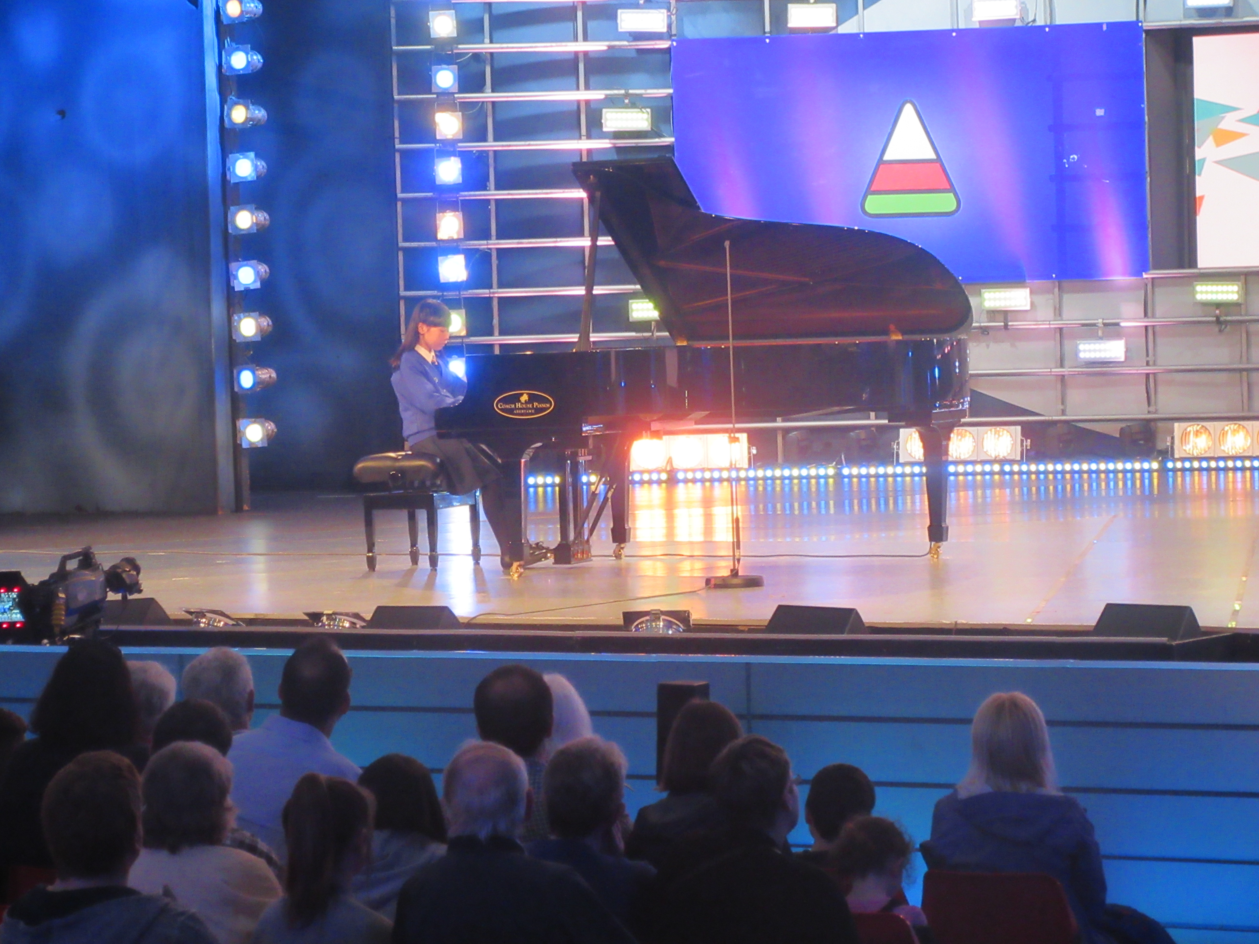 Urdd National Eisteddfod 2017, PEncoed - 29 May - Solo piano competition final at the pavilion